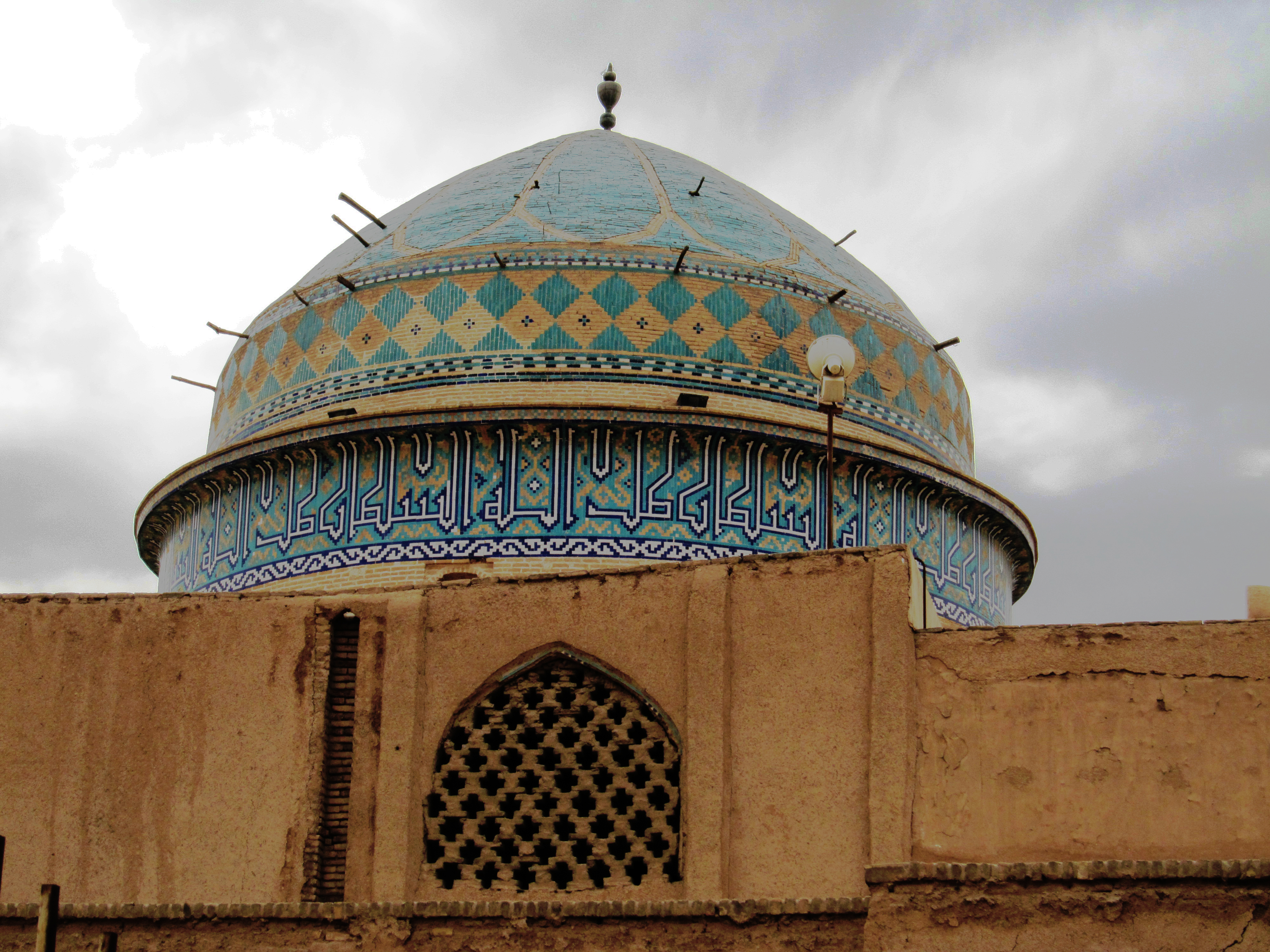 Yazd - Amir Chakhmagh mosque